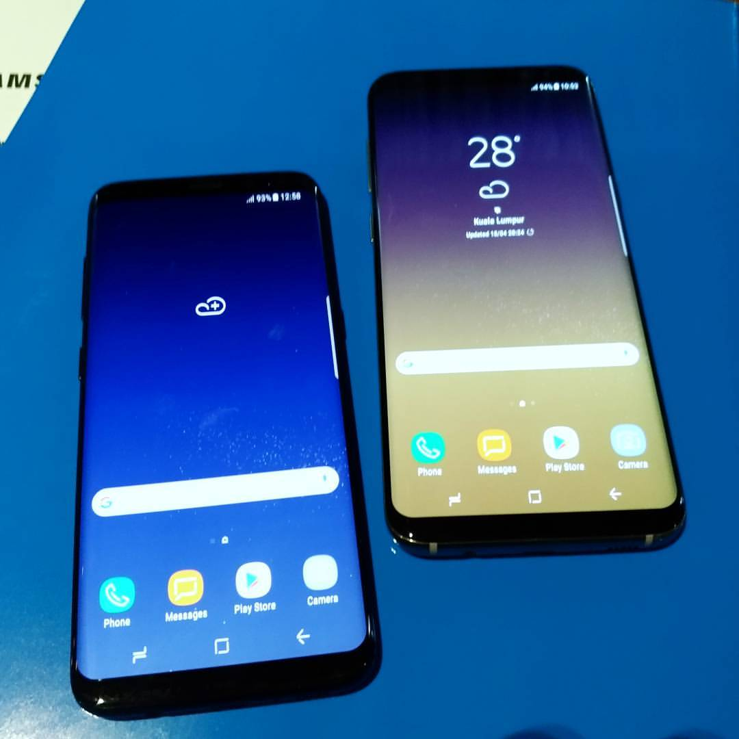 The Galaxy S8 and S8+.